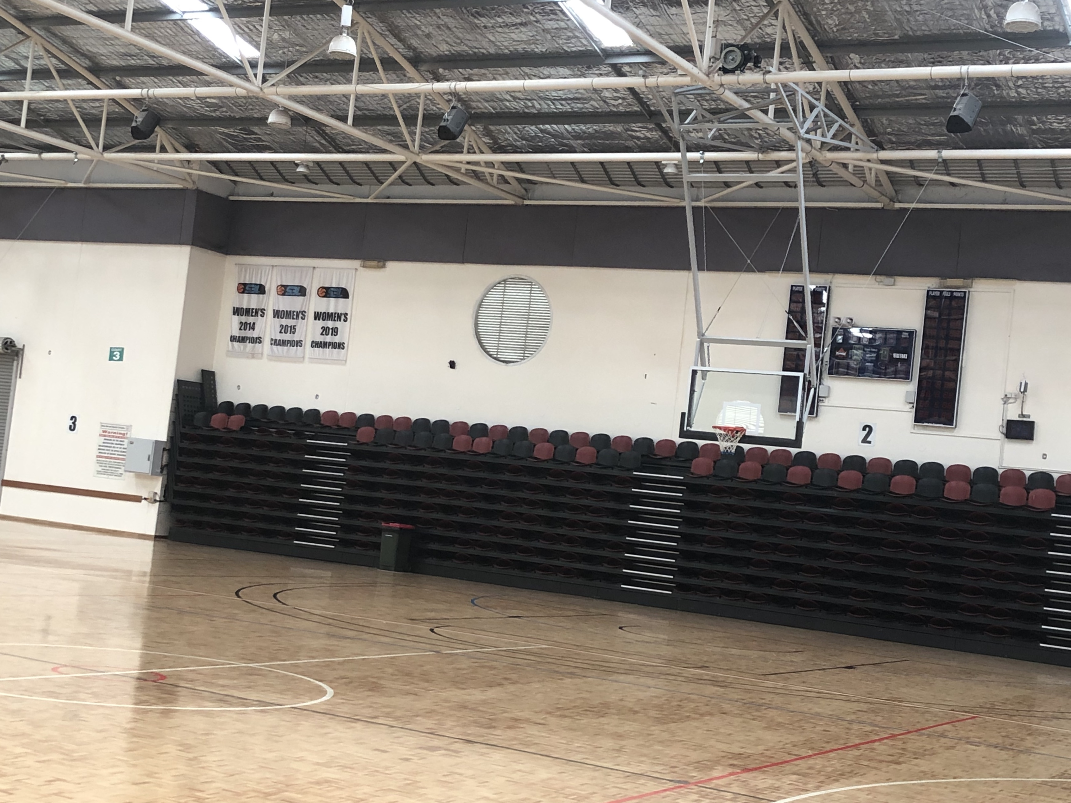 Show Court at Mike Barnett Sports Complex in Rockingham, with the Rockingham Flames’ SBL championship banners on the wall.